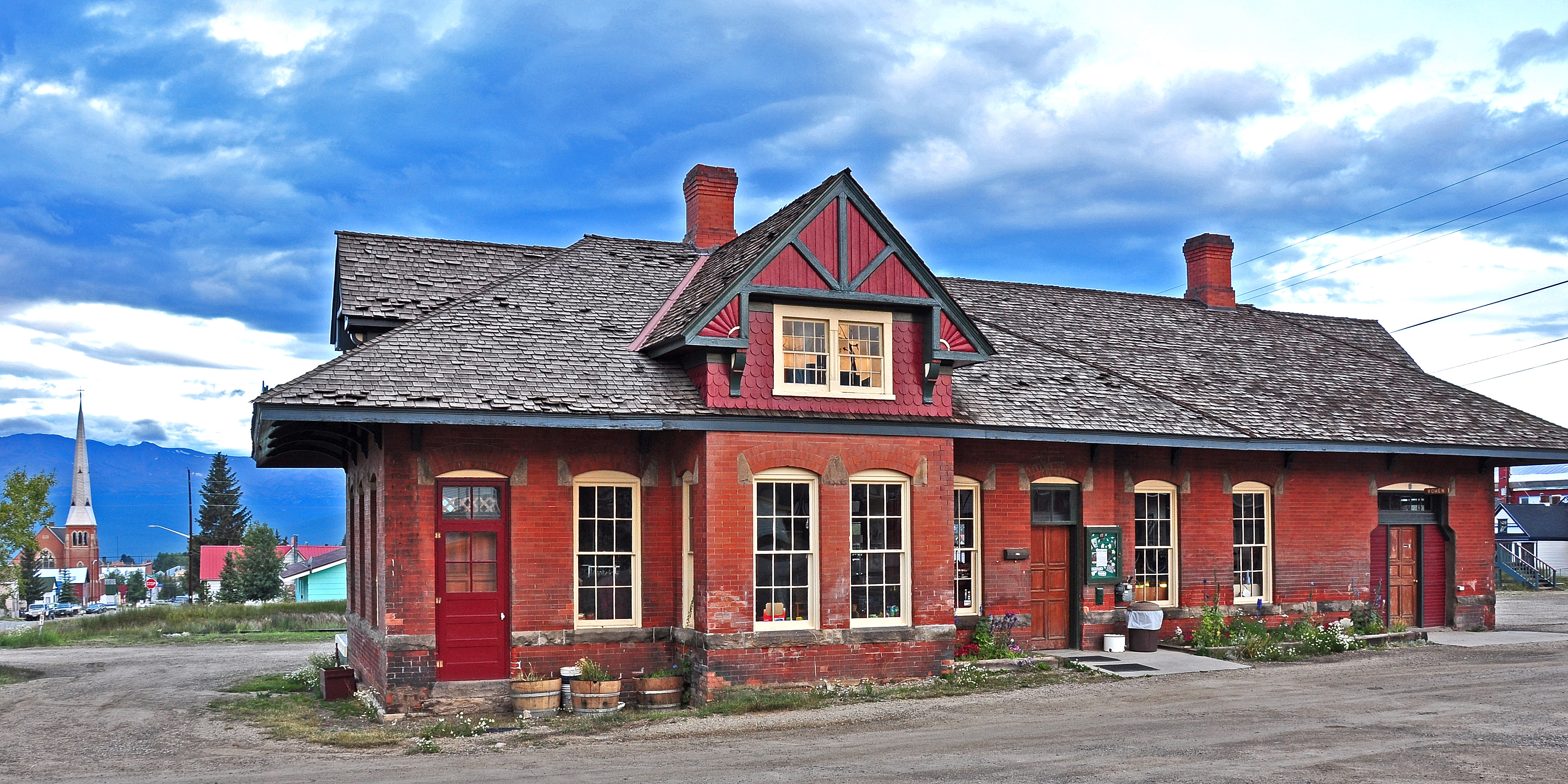 Leadville Colorado & Southern Railroad